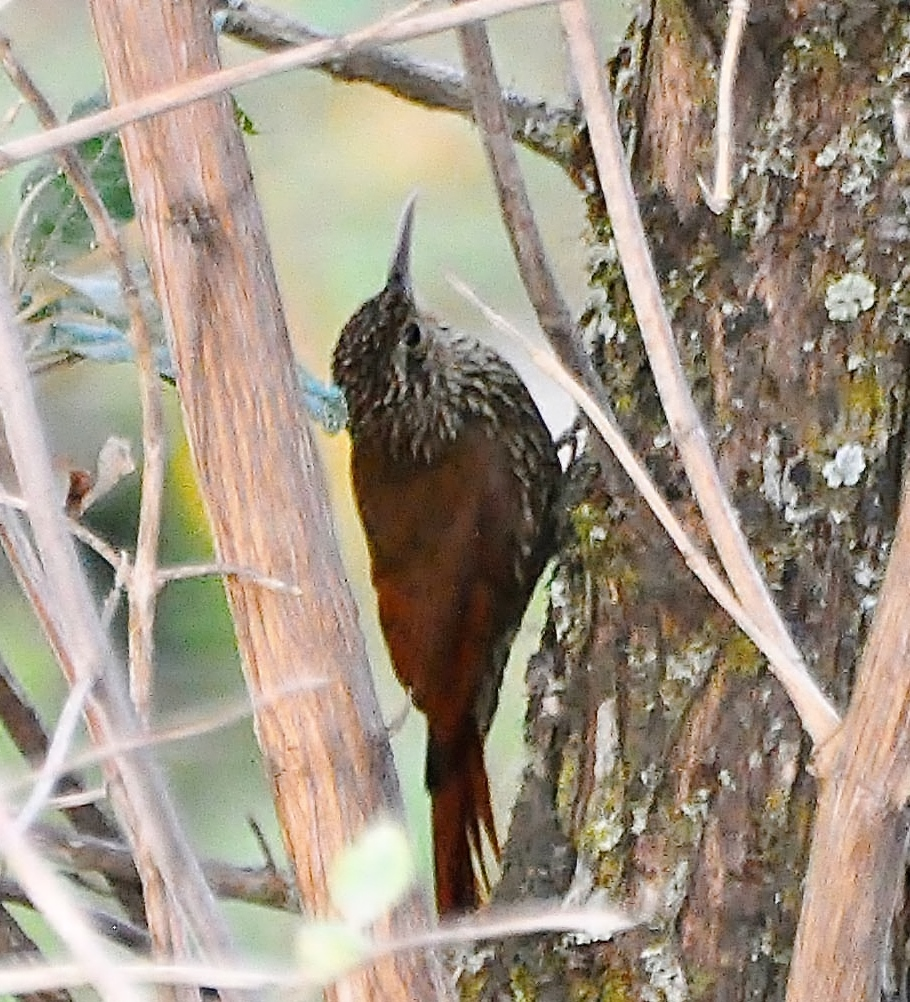 Spot-crowned Woodcreeper (Lepidocolaptes affinis neglectus), Savegre Valley, Costa Rica